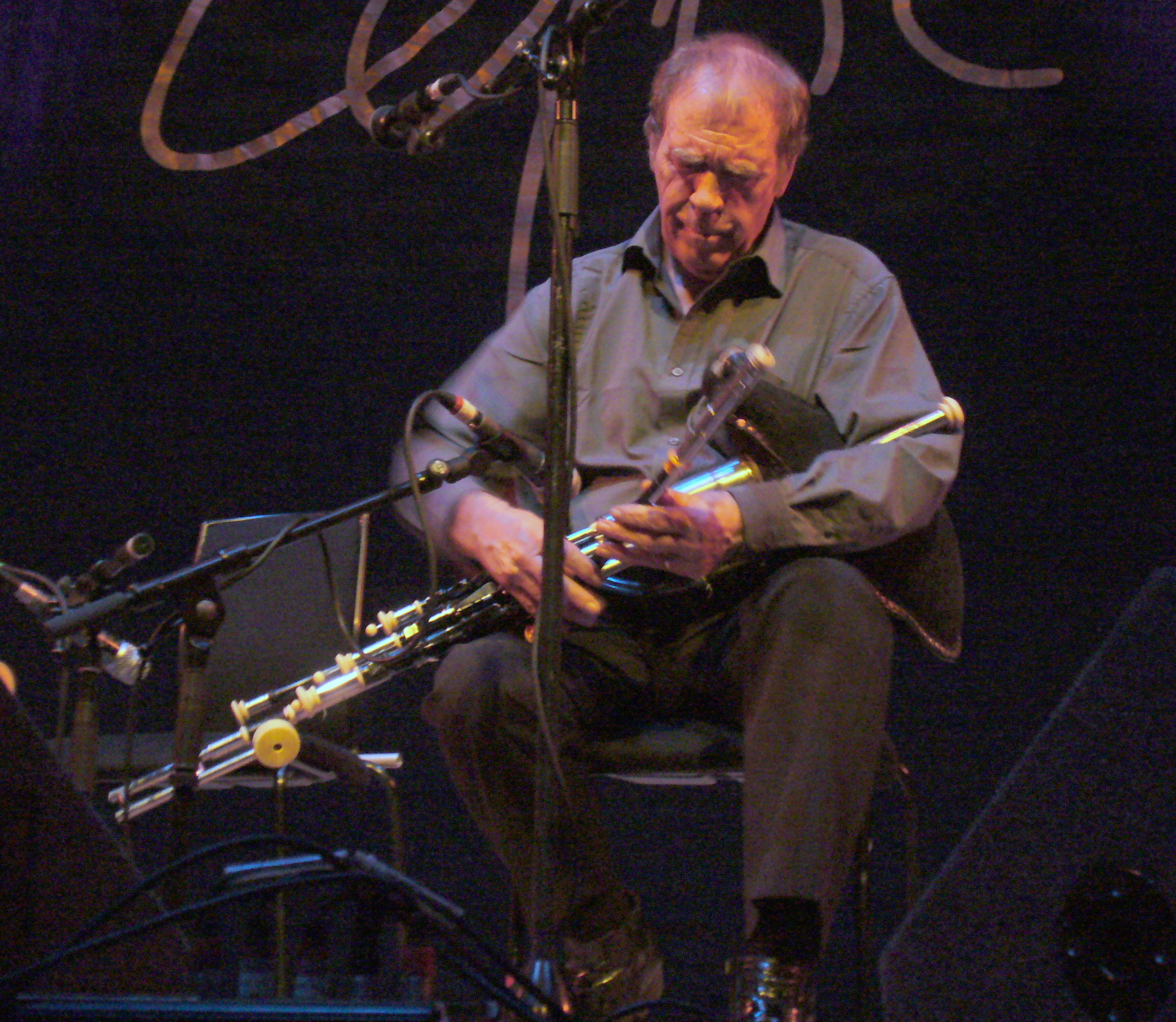 Irish folk musician Finbar Furey plays the uilleann pipes during a performance from 2012.